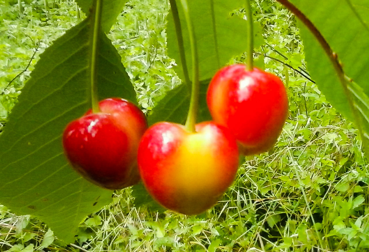 "Signora" cherries from Ariano Irpino, Italy